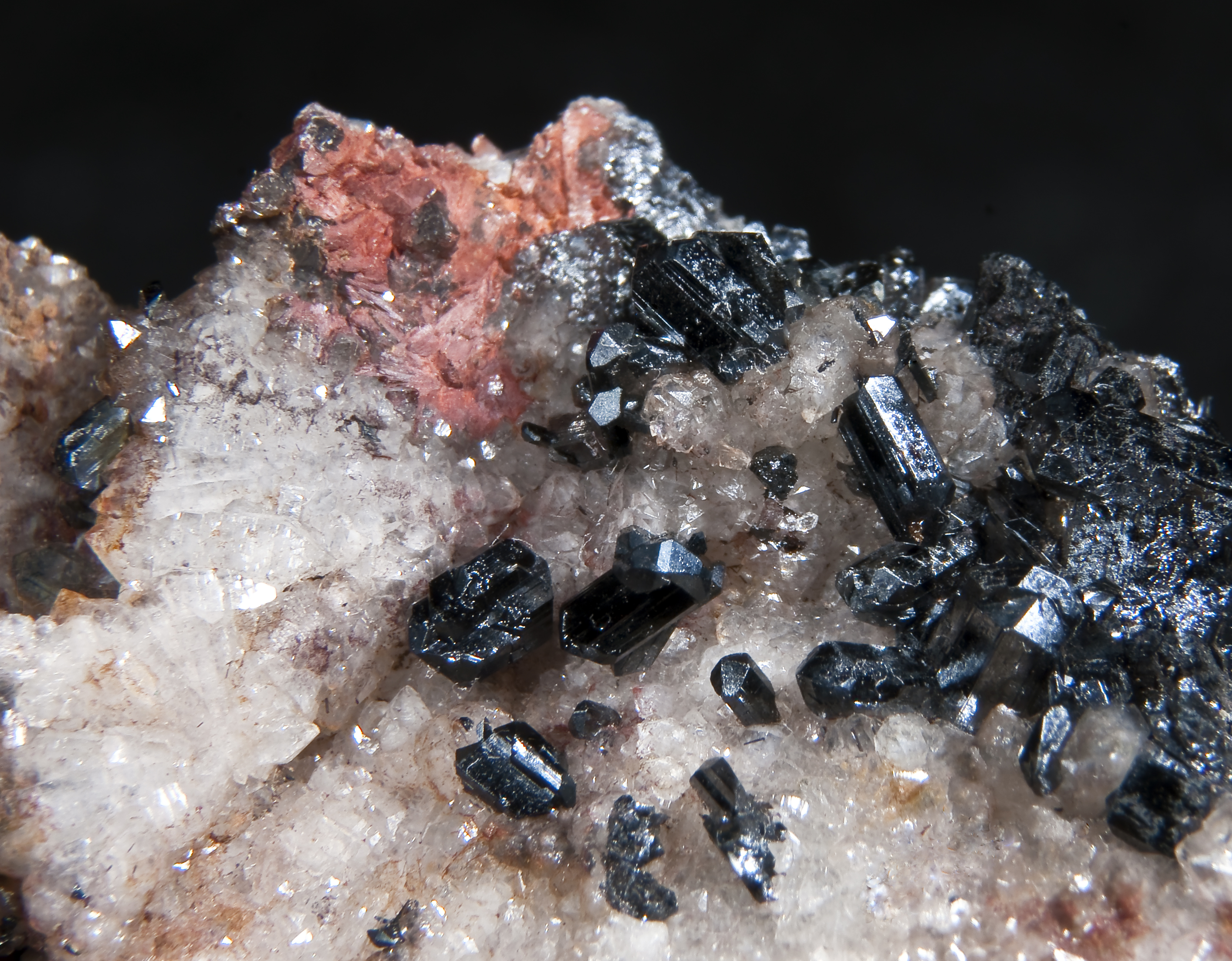 Goethite on quartz Locality : Restormel Royal Iron Mine (Trinity Mine), Lostwithiel, Lanivet Area, St Austell District, Cornwall, England, UK - Size of View 1.5cm